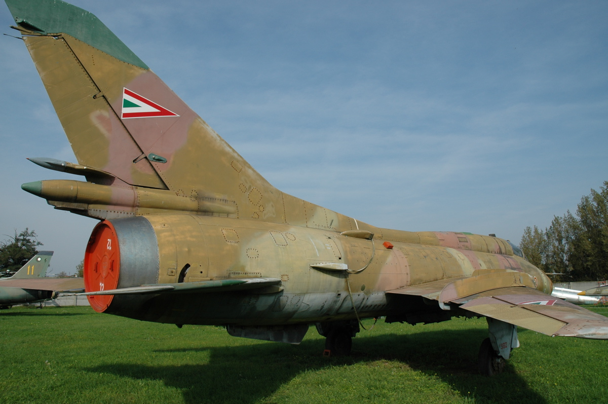 Rear view of Hungarian Sukhoi Su-22M-3 (Museum of Hungarian Air Force, Szolnok, Hungary)